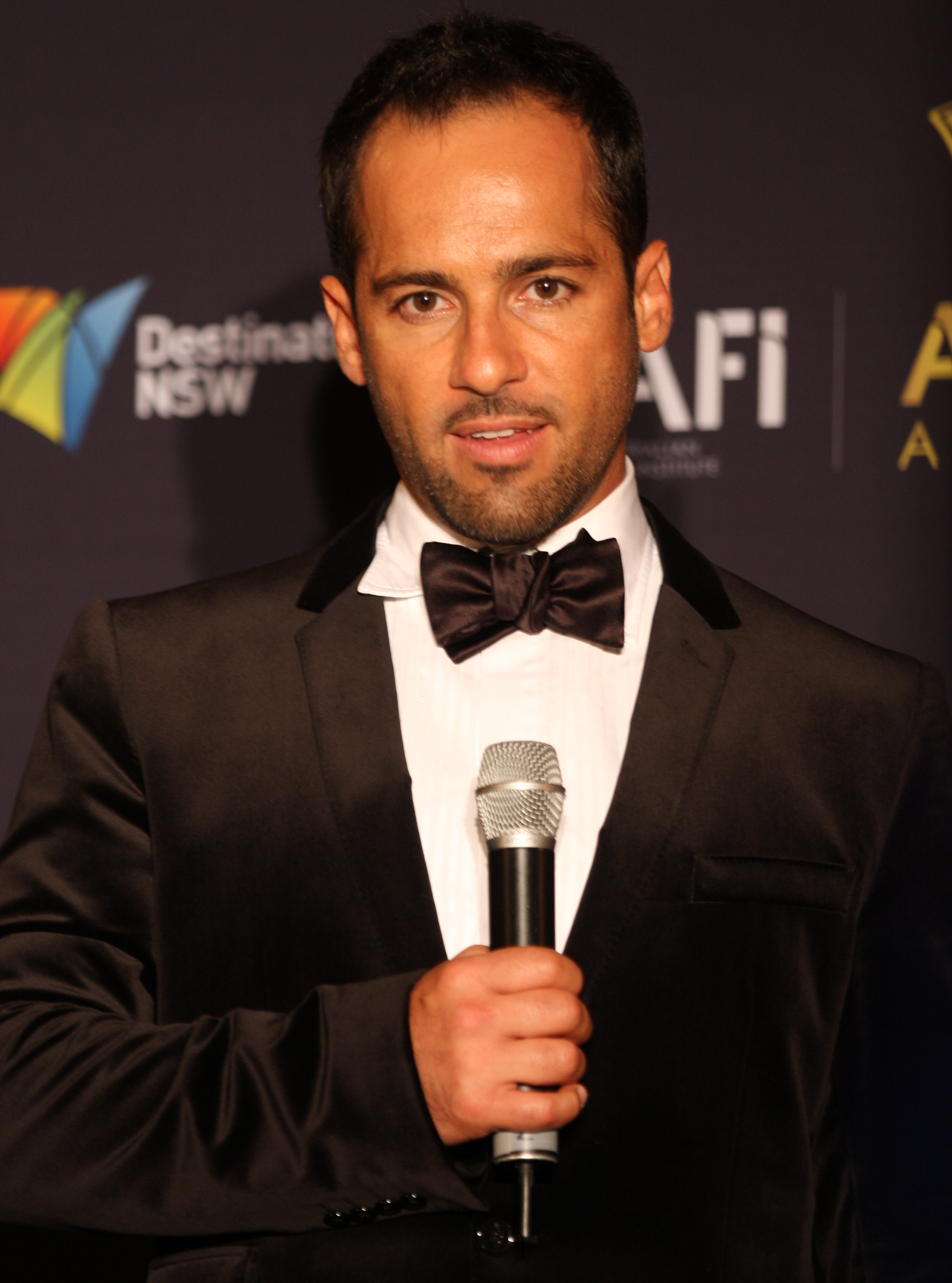 Greek Australian actor Alex Dimitriades